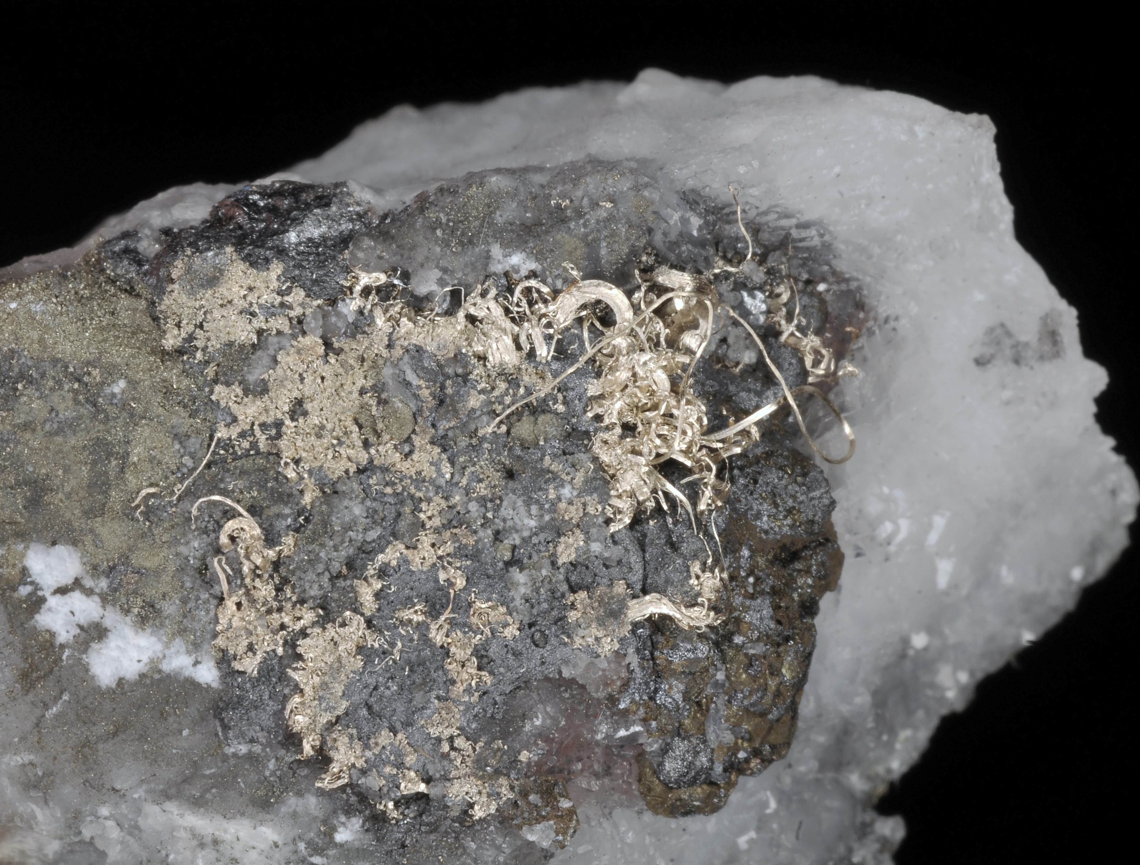 native silver : Huantajalla Mine, Uchucchacua area, Oyon Province, Lima Department, Perù